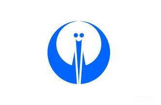 Flag of Tsurugashima Saitama